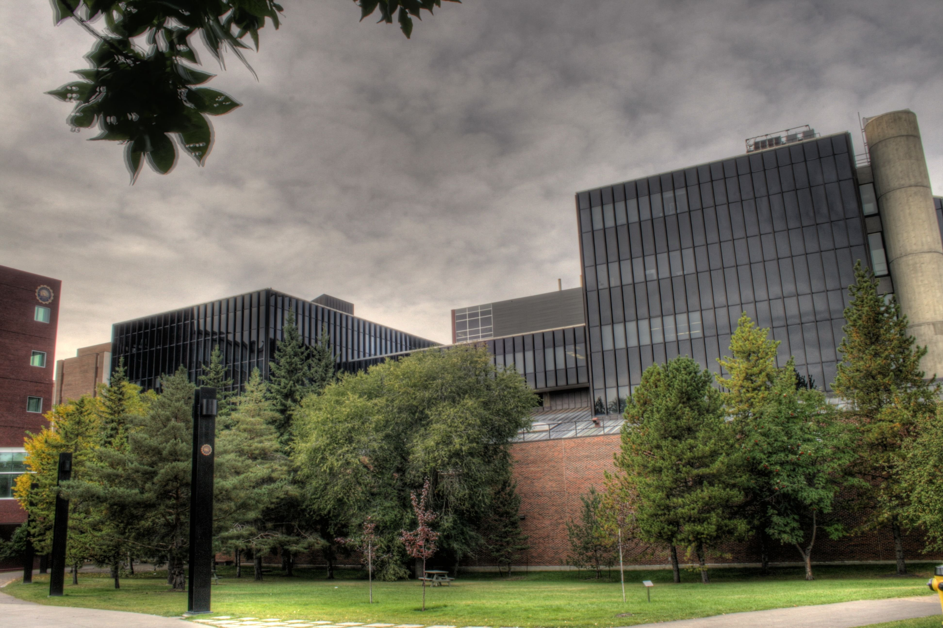 South face of the Mechanical Engineering Building on the main campus of the University of Alberta, Edmonton, Alberta, Canada.